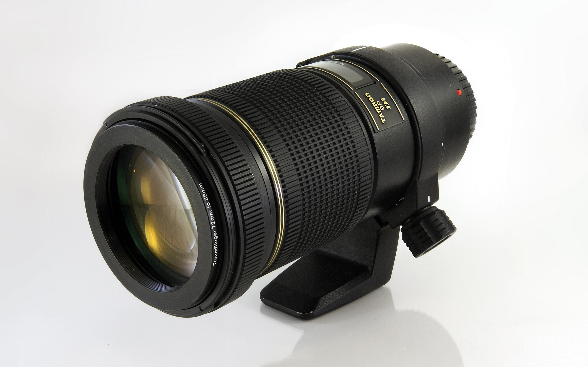 Tamron SP AF-180mm F/3.5 Di Macro Lens.